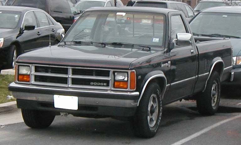 1987-1990 Dodge Dakota photographed in USA.